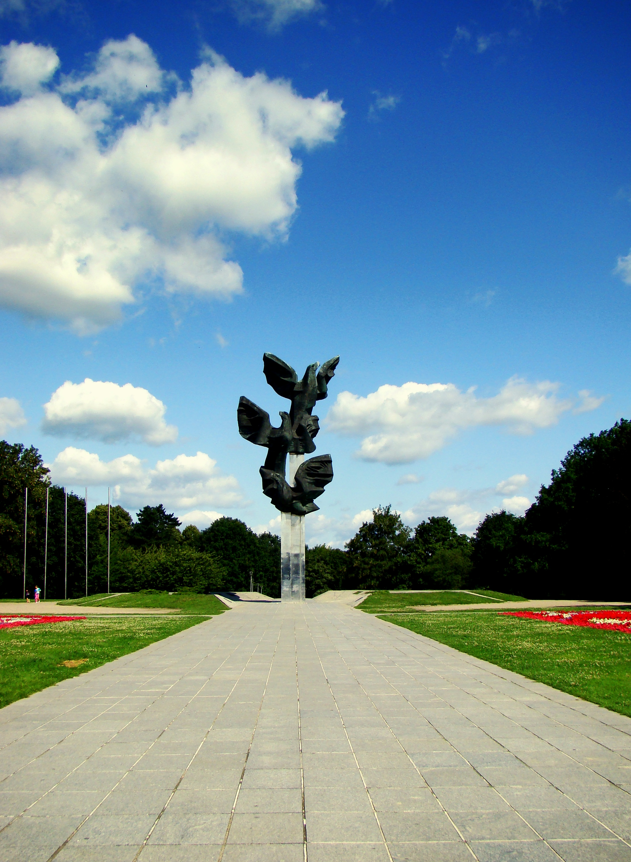 Monument to Polish Endeavor, Szczecin, Poland